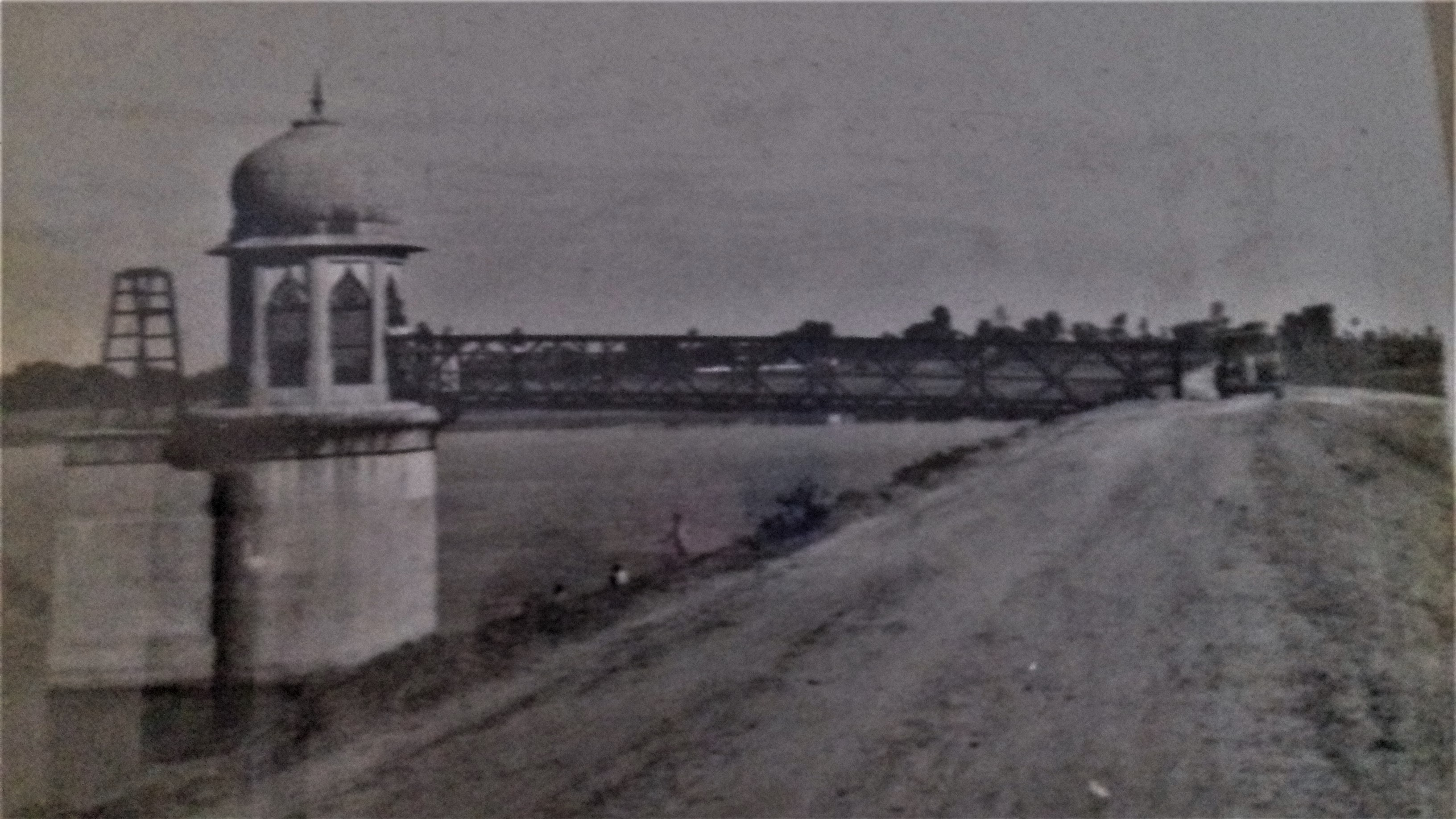 This photograph is a portrait found at Store room which is at the front of Dam gate.